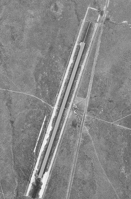 USGS digital orthophoto of Alkali Lake State Airport in Oregon